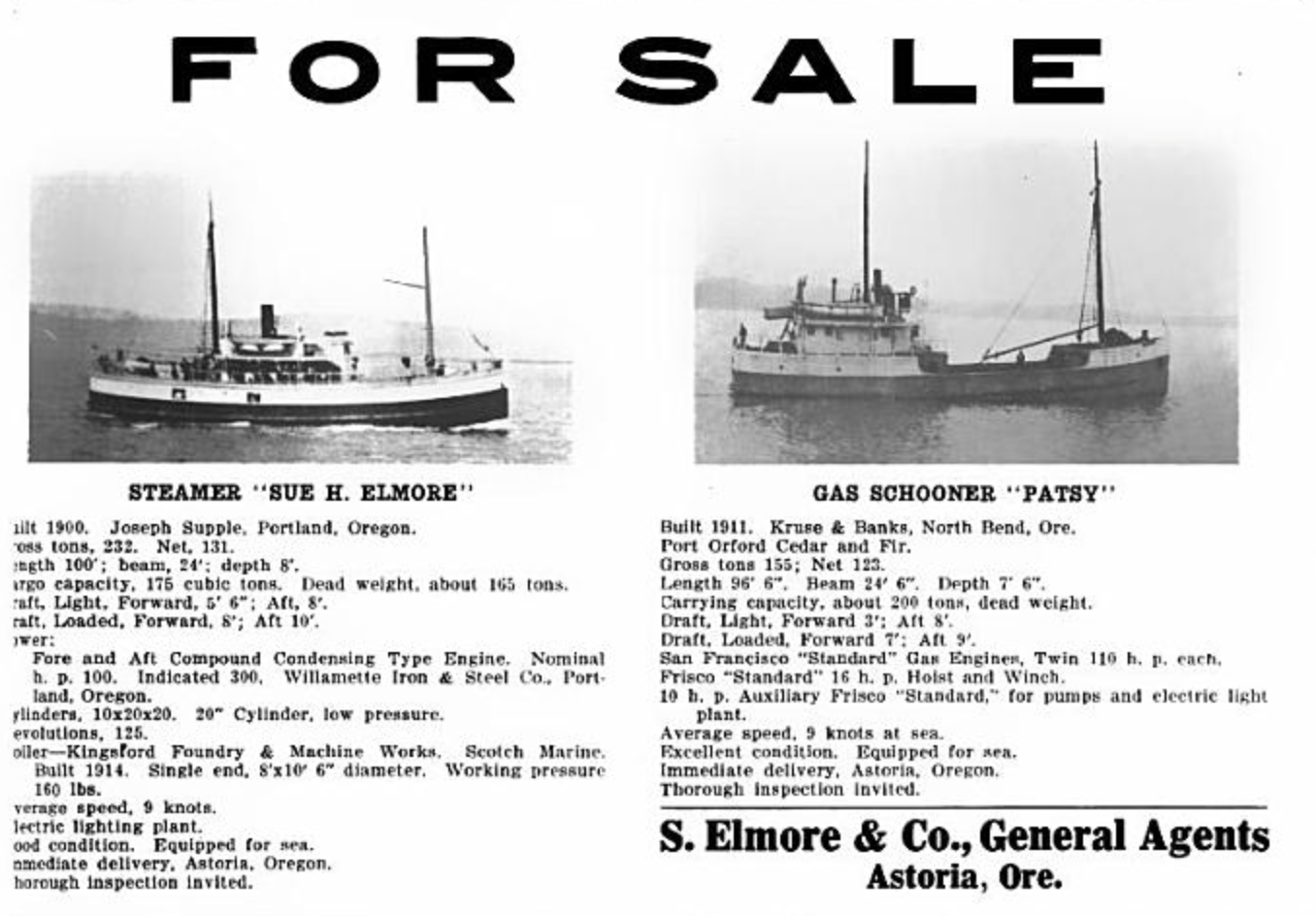 Advertisement for sale of steamer Sue H. Elwood and gasoline schooner Patsy.